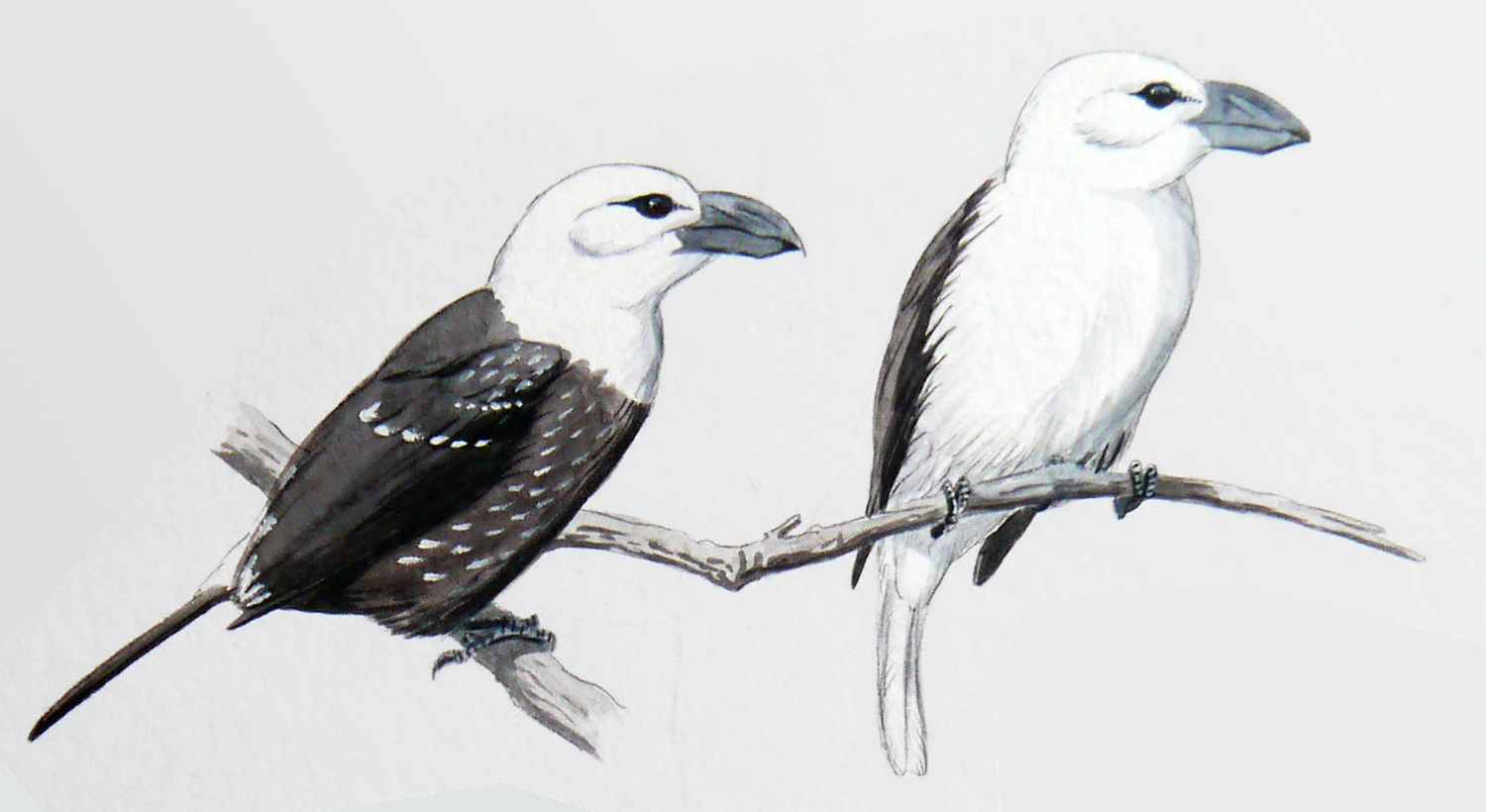 White-headed Barbet (Lybius leucocephalus). The two most striking subspecies. Left: Lybius leucocephalus leucocephalus, right: Lybius leucocephalus senex